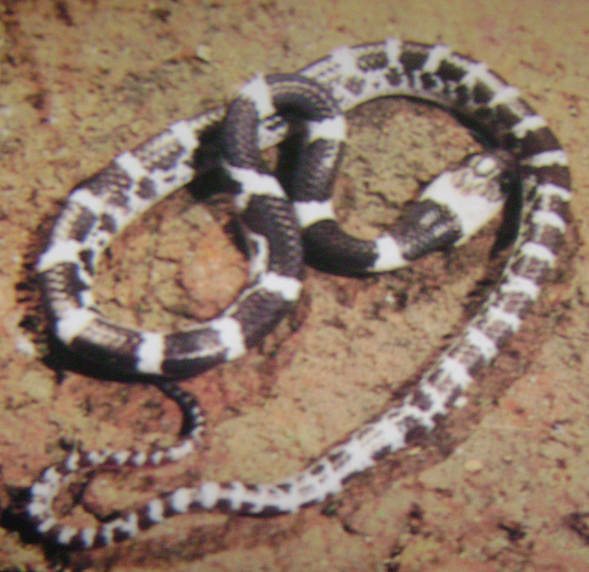 Dryocalamus nympha-a species of snake found in southern India and Sri Lanka